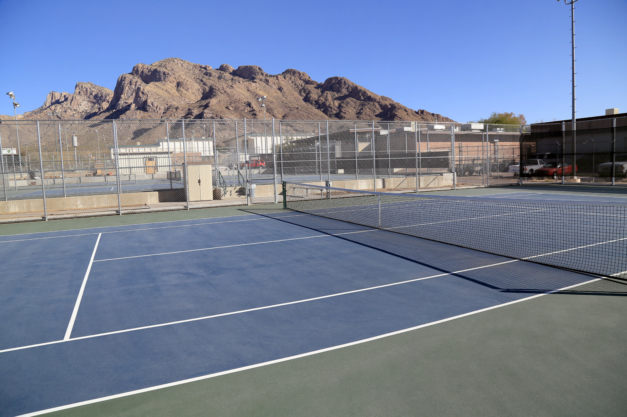 This is a picture of the Canyon Del Oro High School tennis courts in Oro Valley.